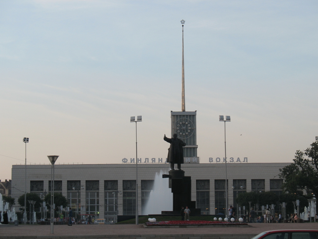 Saint Petersburg (Russia), Finlyandsky Rail Terminal.